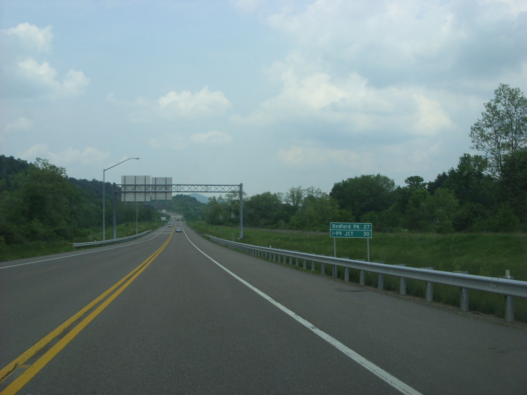 US Route 220 - Maryland northbound past Interstate 68